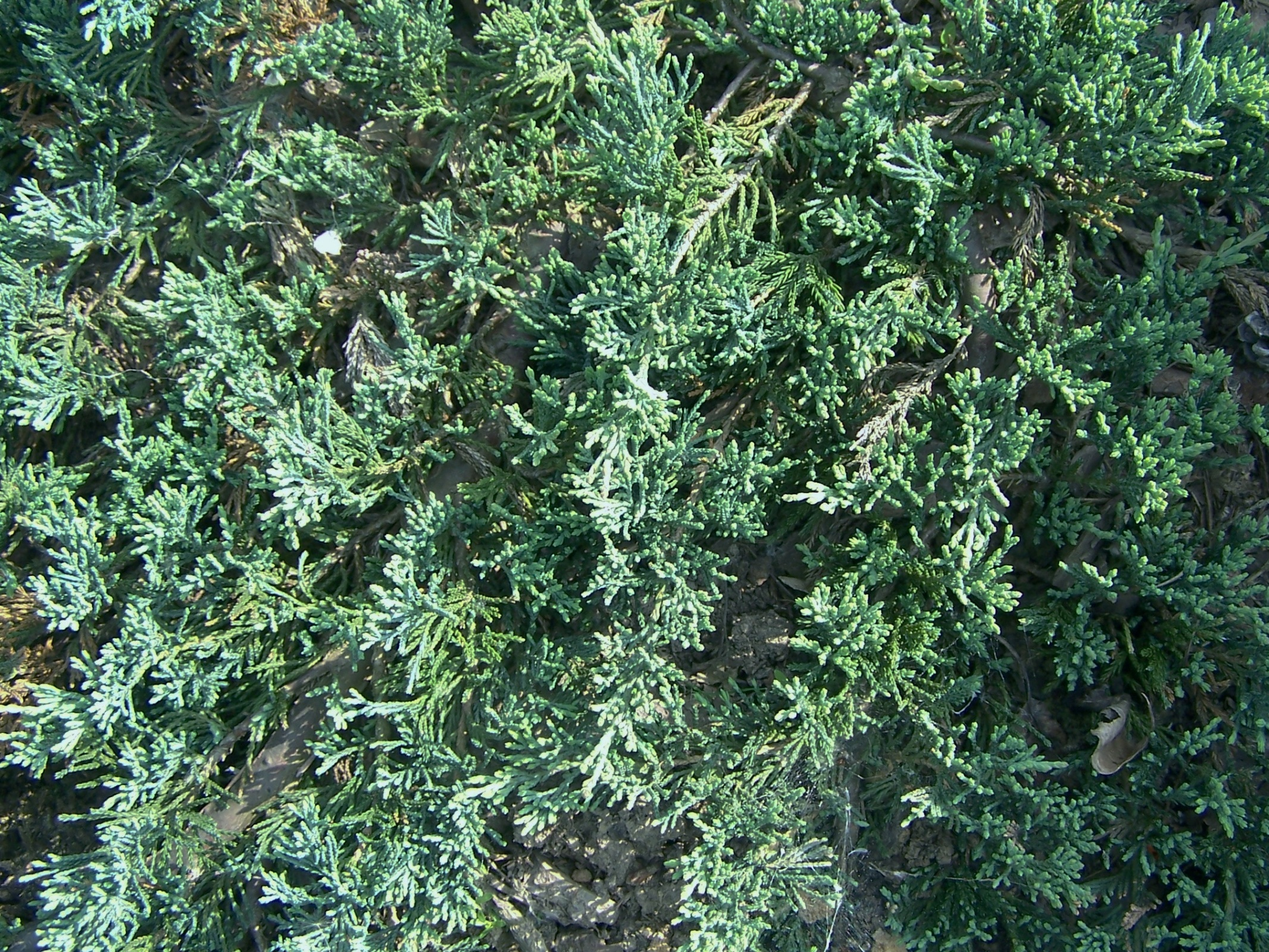 Juniperus horizontalis `Wiltoni`